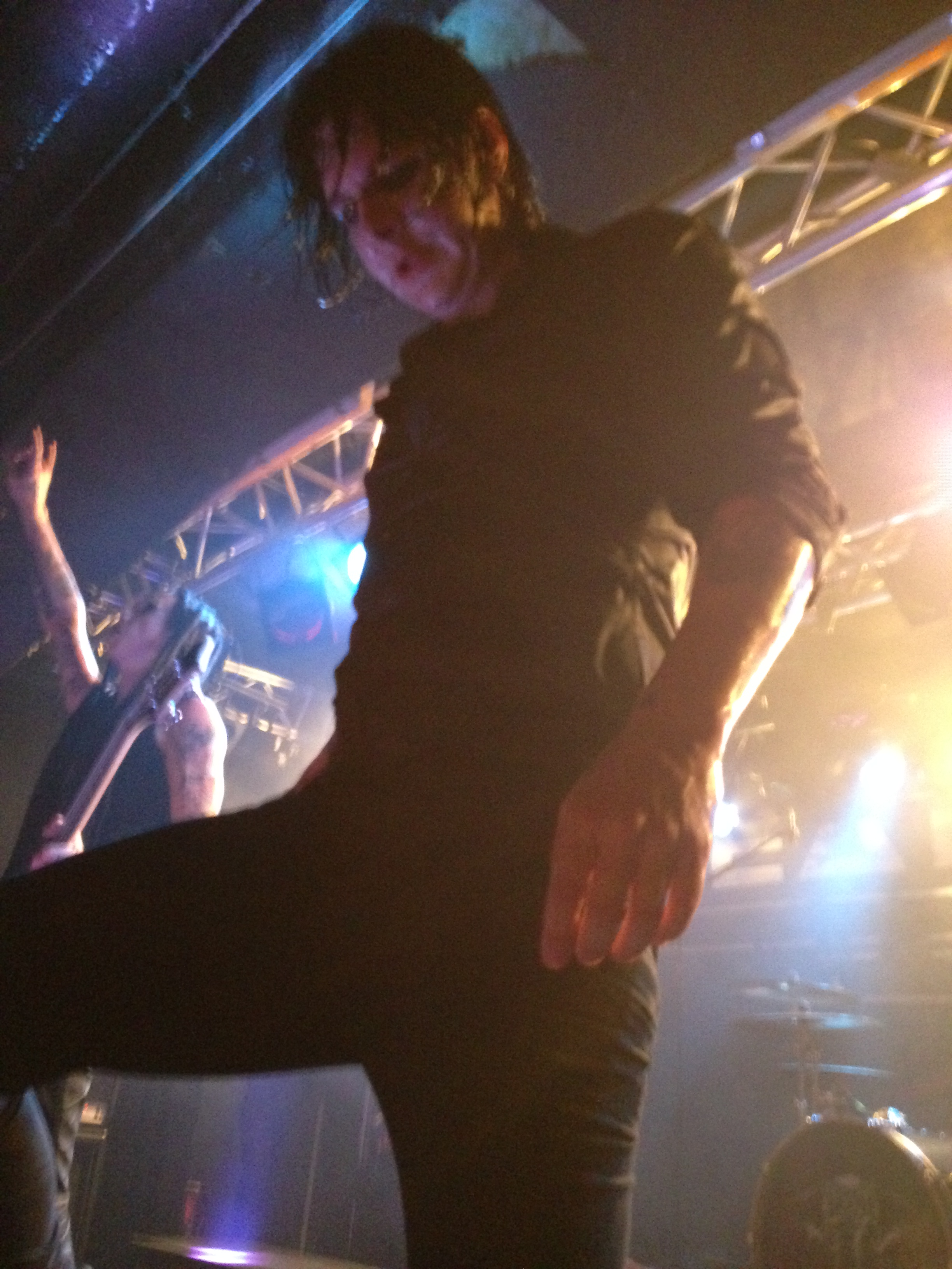 Debaser Strand - Stockholm - 4 October 2014